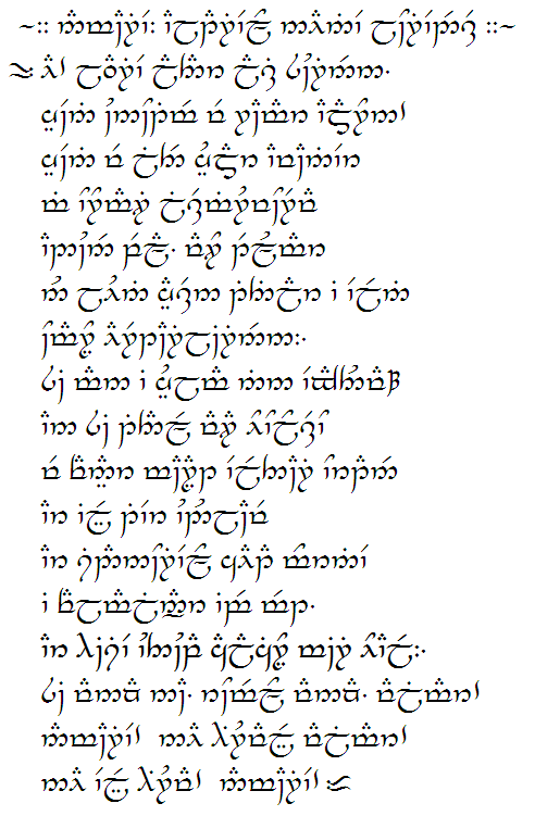 The poem Namárië by J.R.R. Tolkien in the original Quenya, written in Tengwar script. Image created by Jacob McClenny using the font Tengwar Annatar created by Johan Winge. Tengwar Annatar is freeware and can be downloaded at